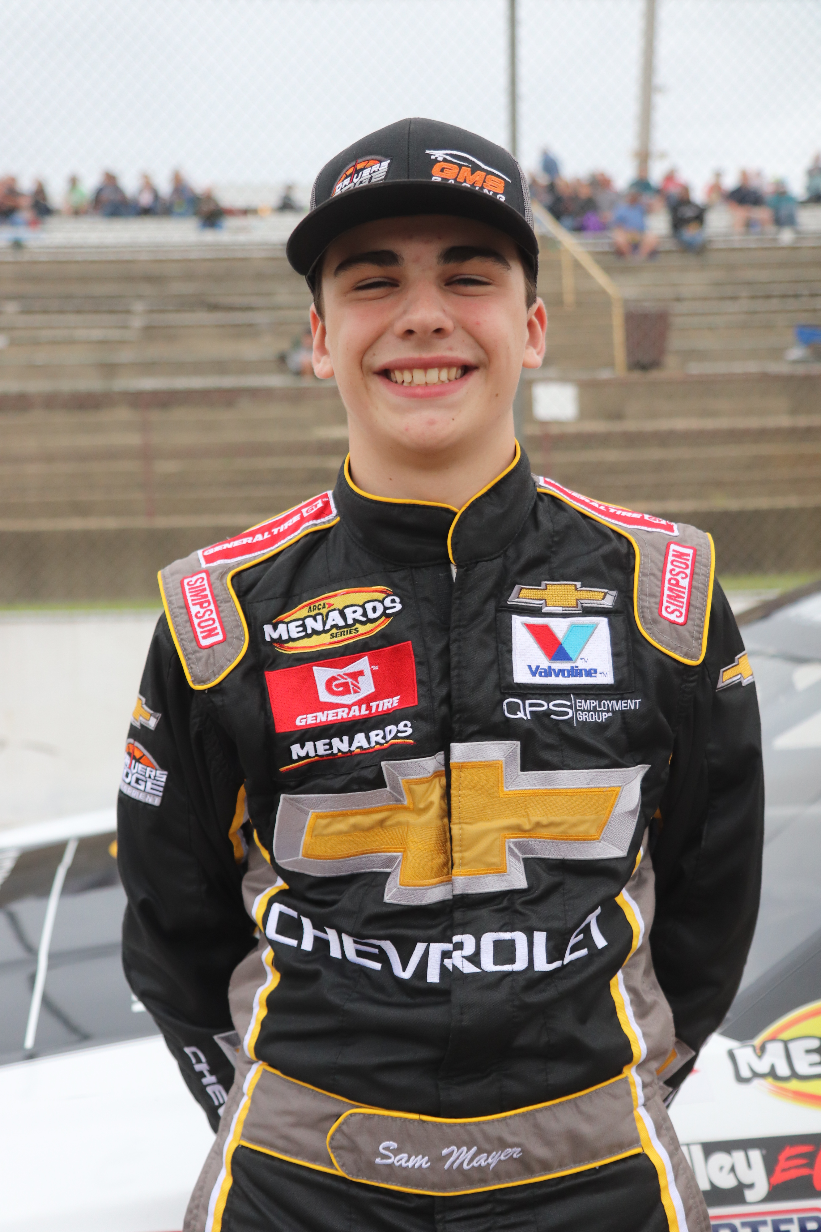 ARCA / NASCAR driver Sam Mayer poses at Madison International Speedway.